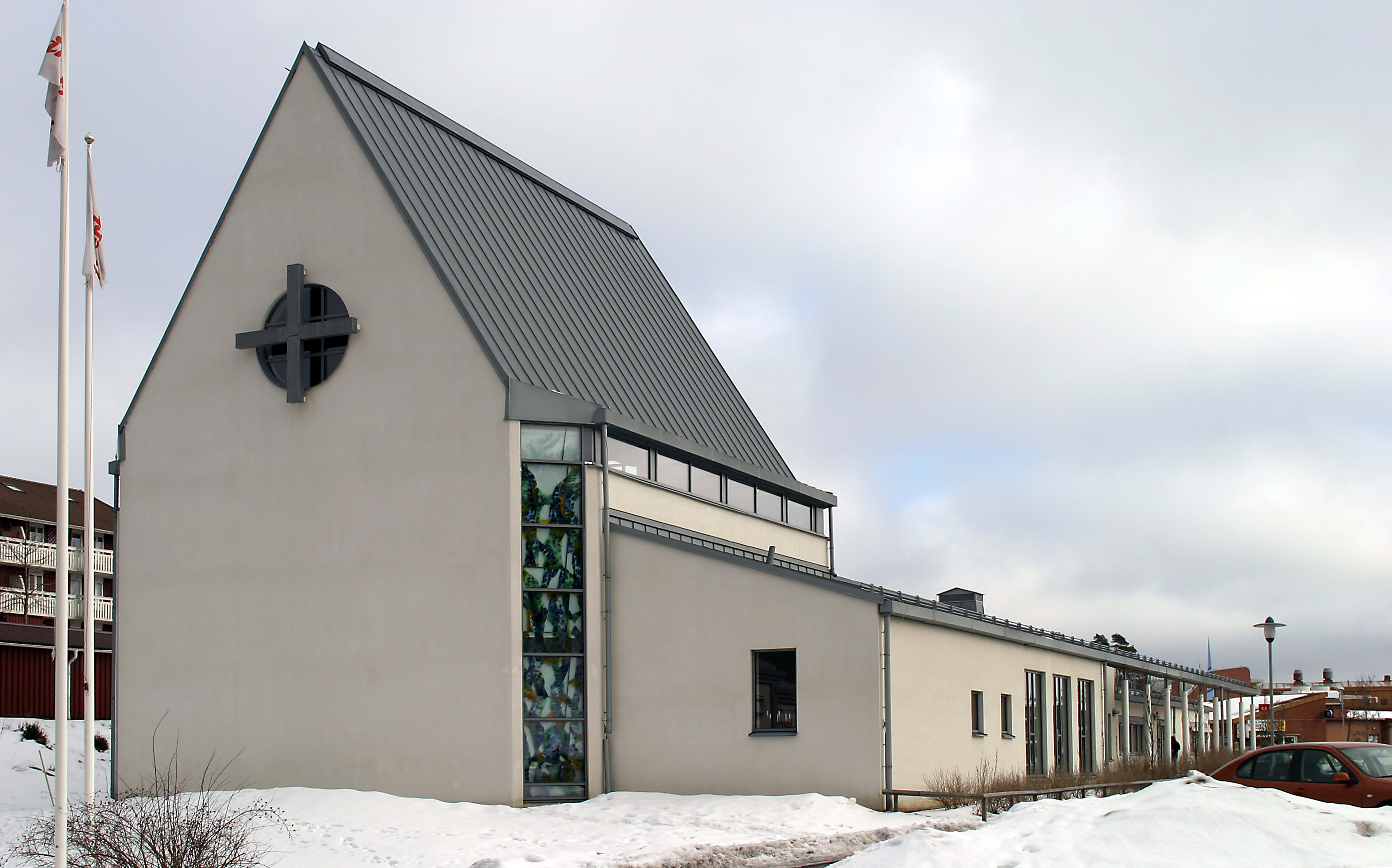 Picture of Furulundskyrkan in Partille, Sweden